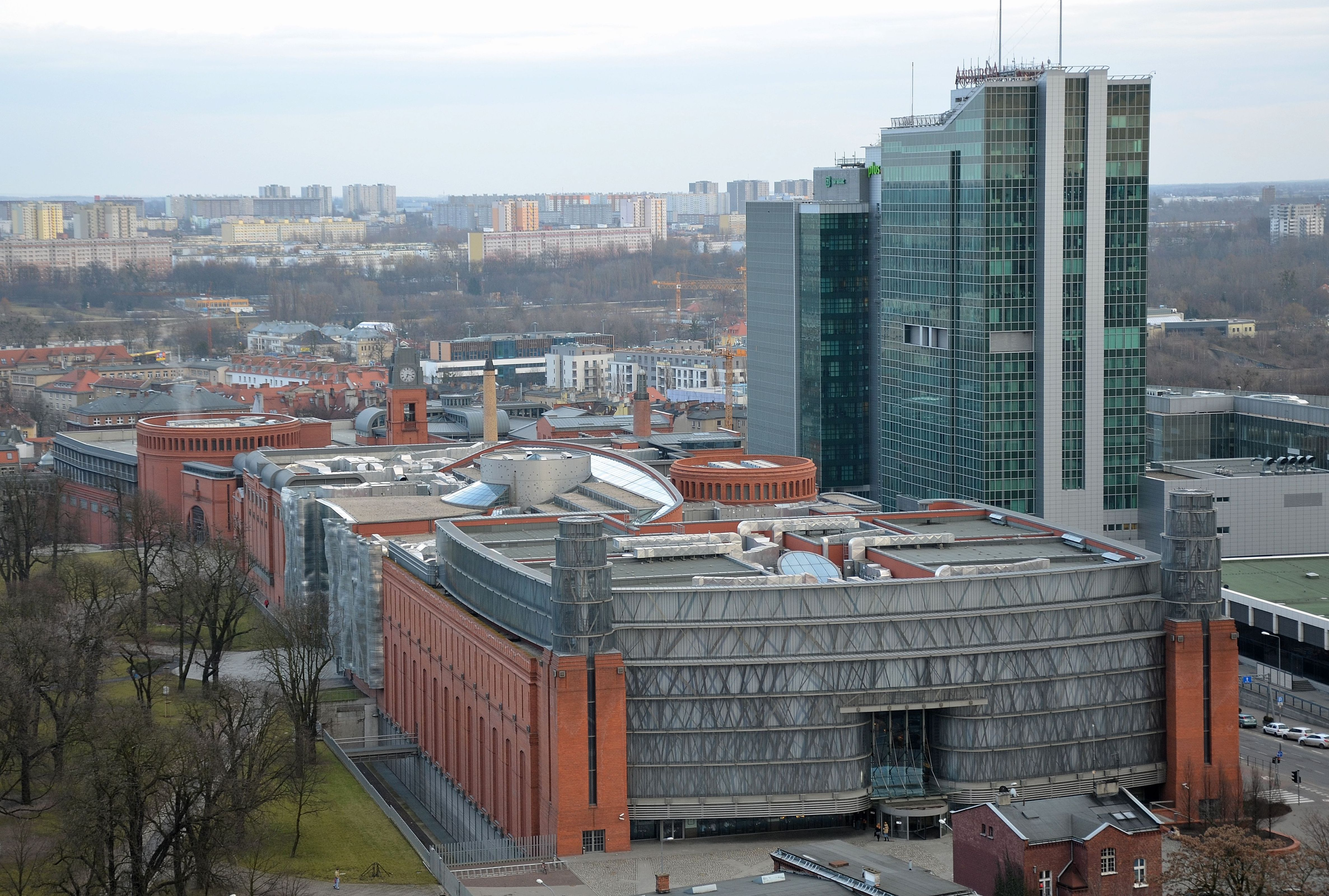 Stary Browar viewed from 15th floor of Collegium Altum building